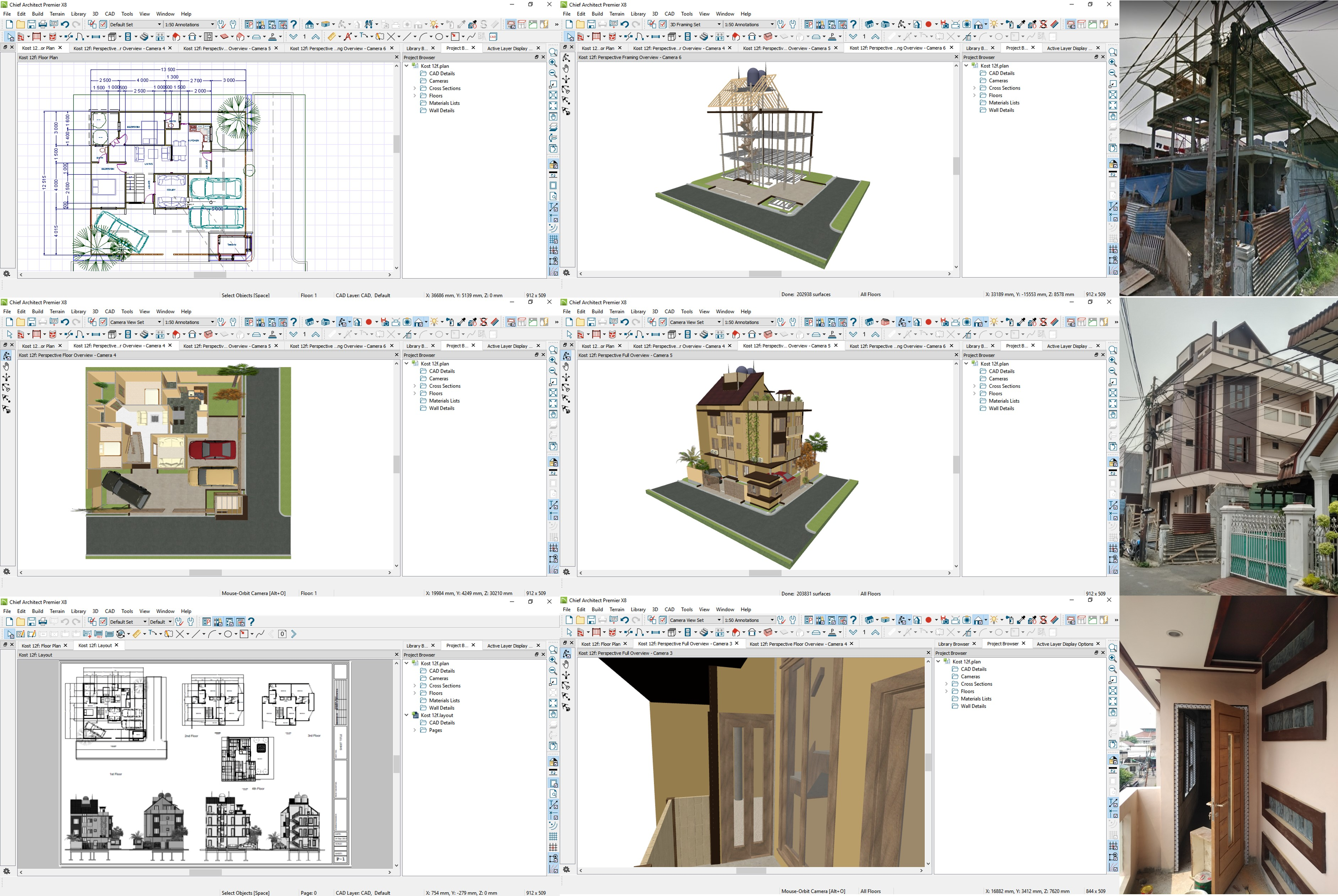 Computer aided design of a house plan from concept draw and virtual 3D walk through to build. (Software used Chief Architect Premier)